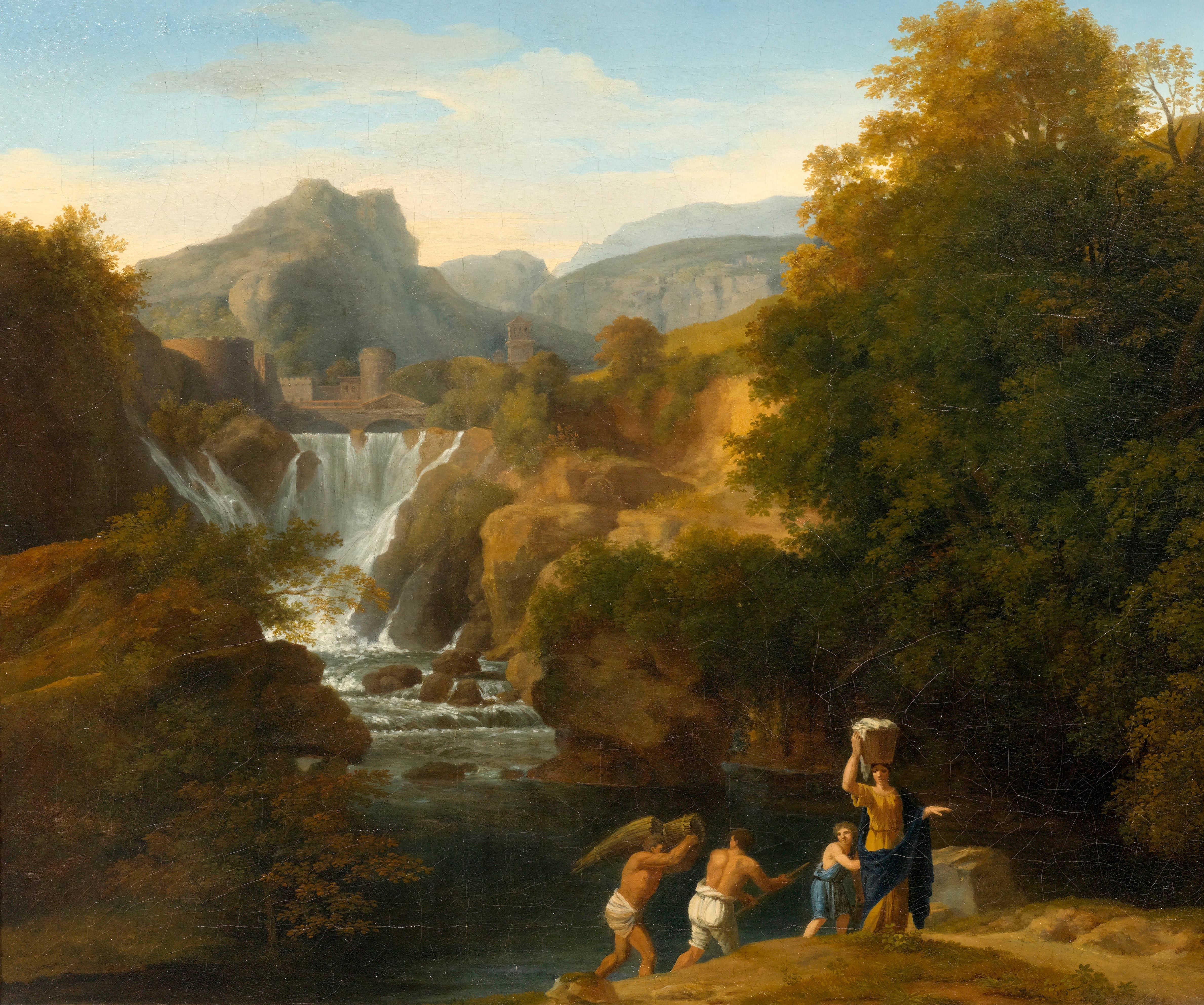 Figures in a Mediterranean mountain landscape with a waterfall and a castle